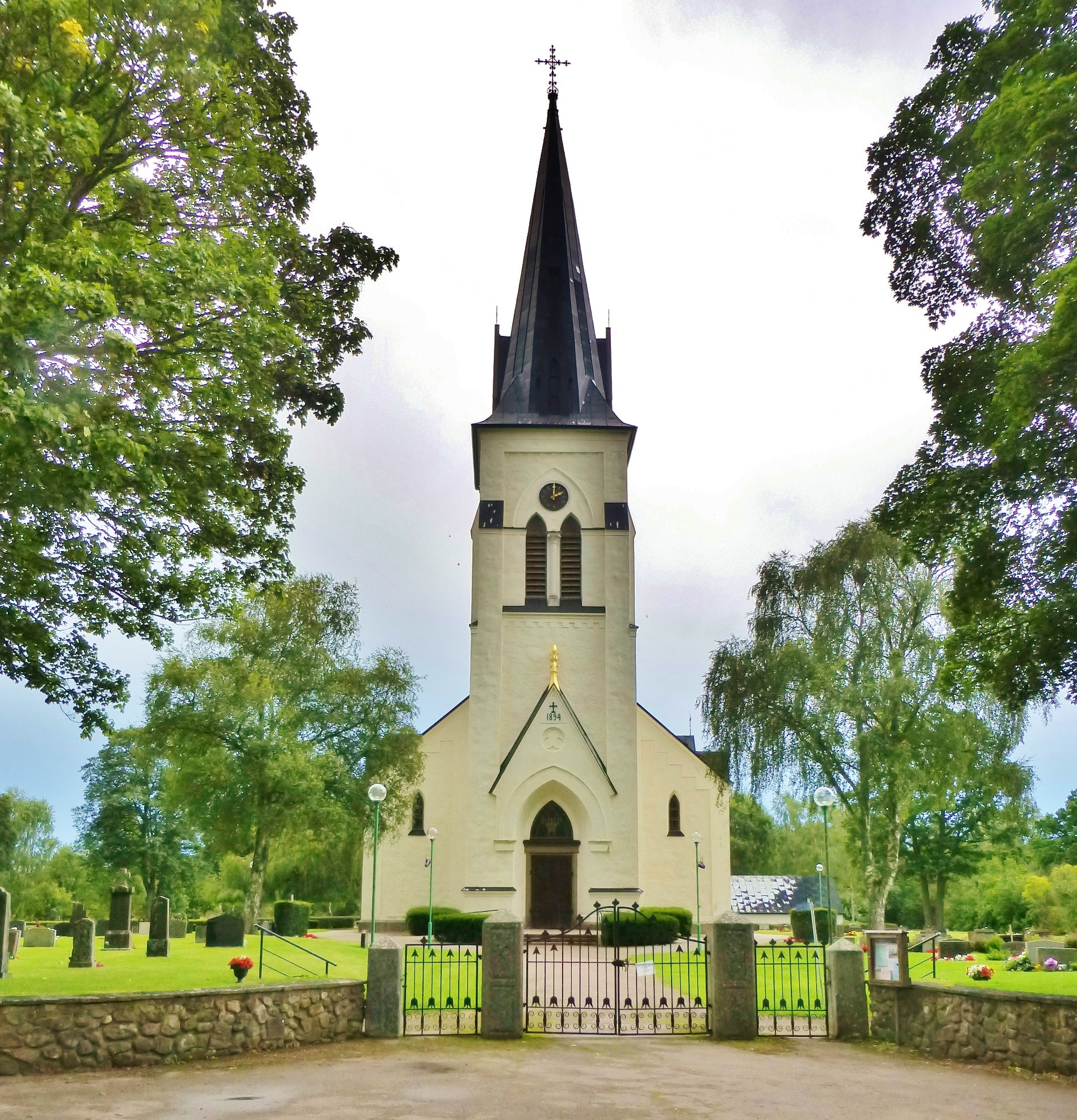 Fagerhults Church.The church was built in 1894 and designed by architect CG Löfquist. It was built in the Gothic Revival style.